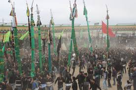 عاشورای مزینان